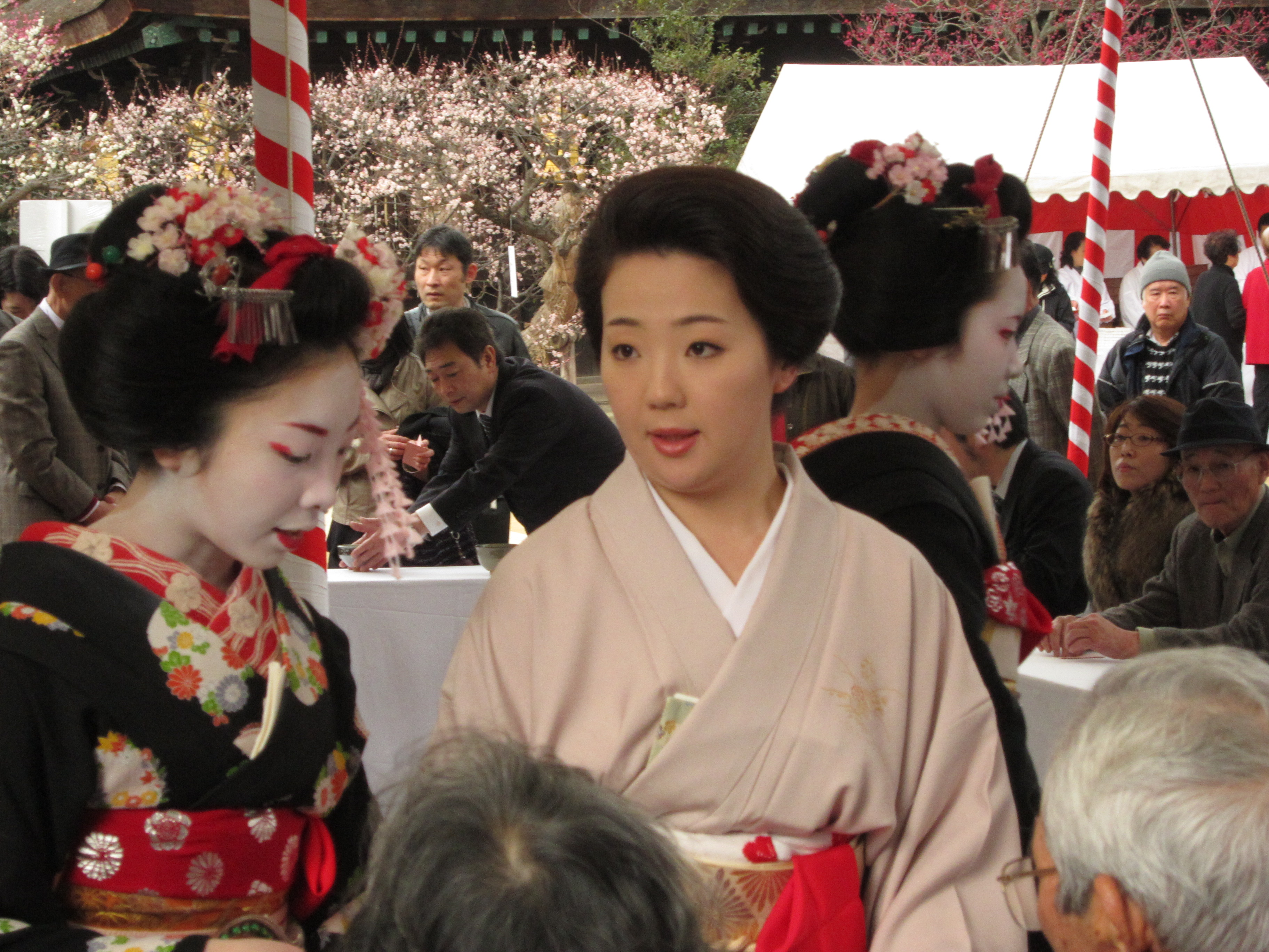 A mature geisha and two maiko, serving tea at the Plum Blossom Festival at Kitano Tenman-gū